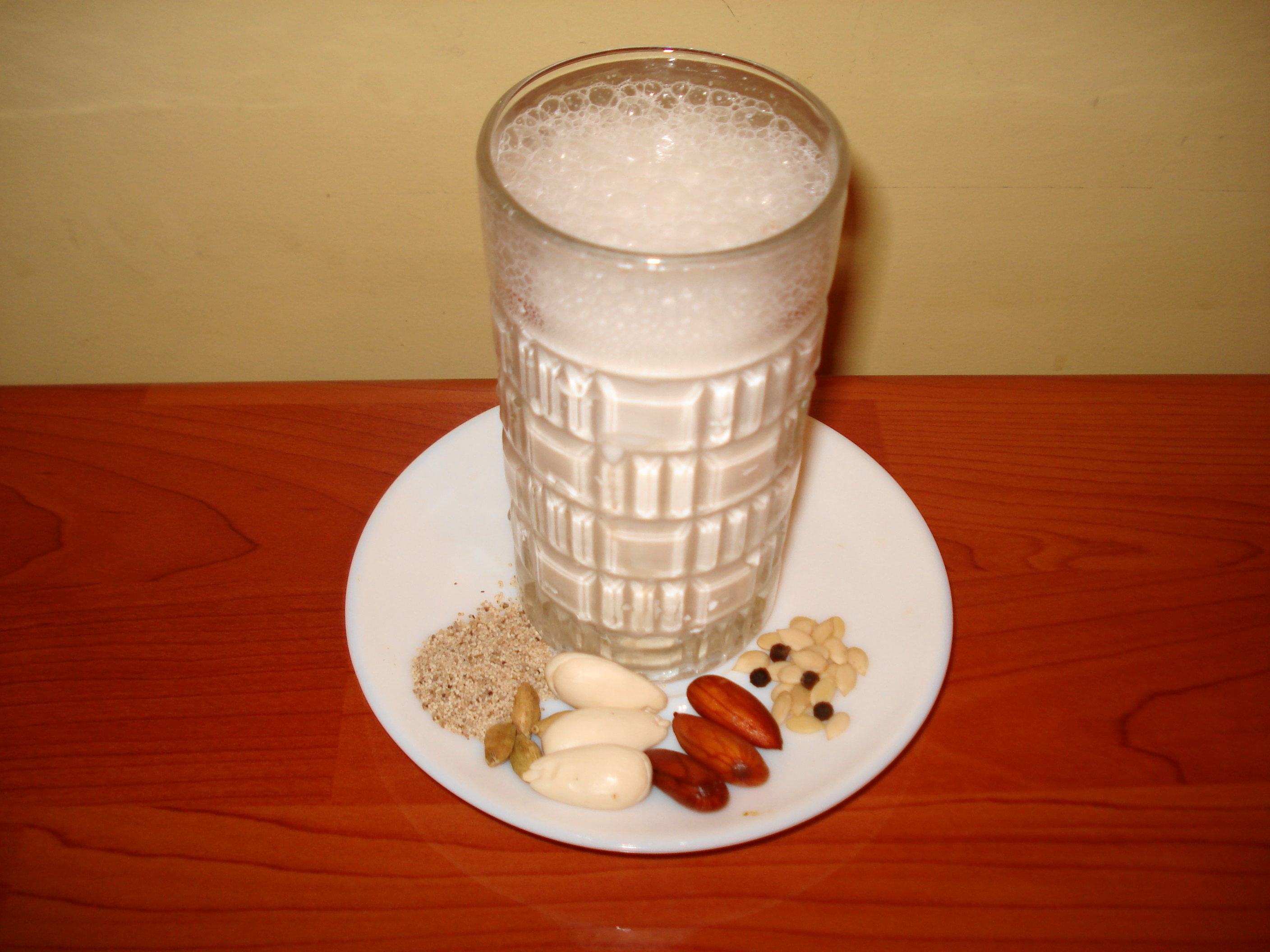 Almond Shake